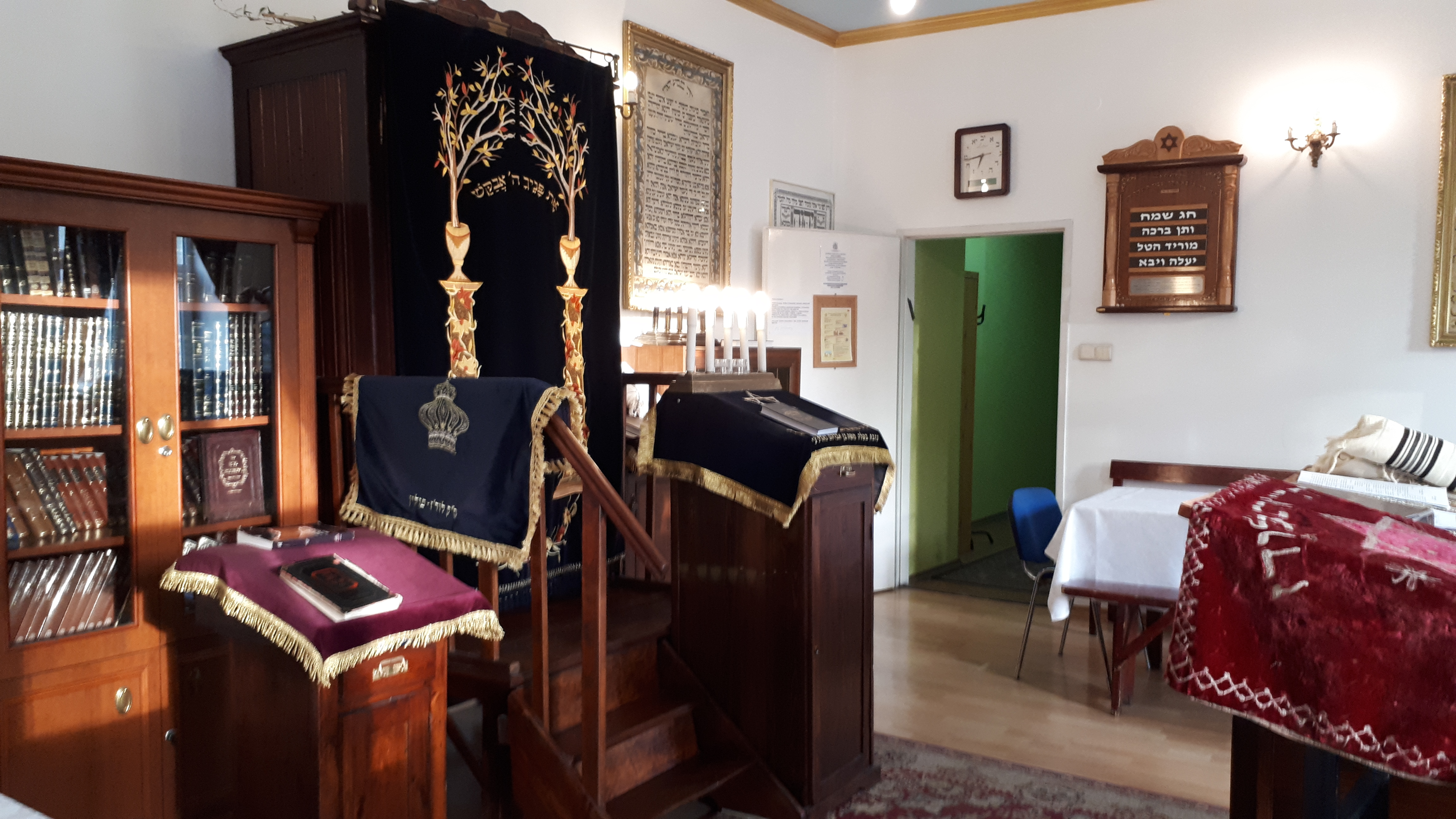 Synagoga w Łodzi (ul. Pomorska 18)